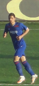 Alireza Jahanbakhsh, Damash vs Fajr